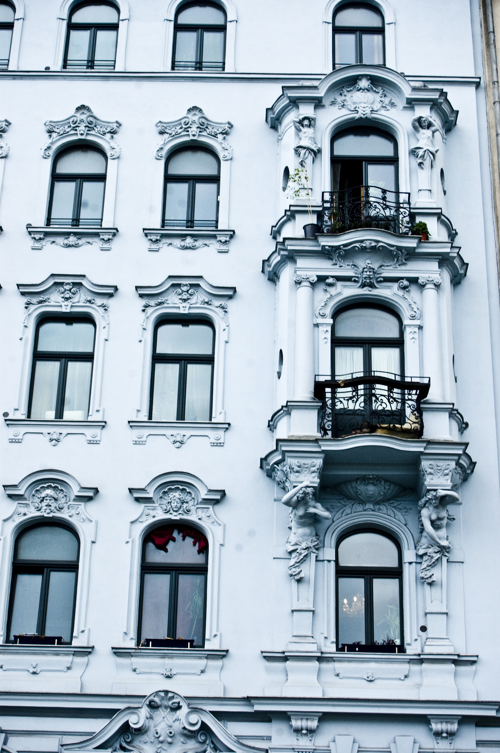 Front of Lighthouse Wien, a shelter for formerly homeless drug addicts